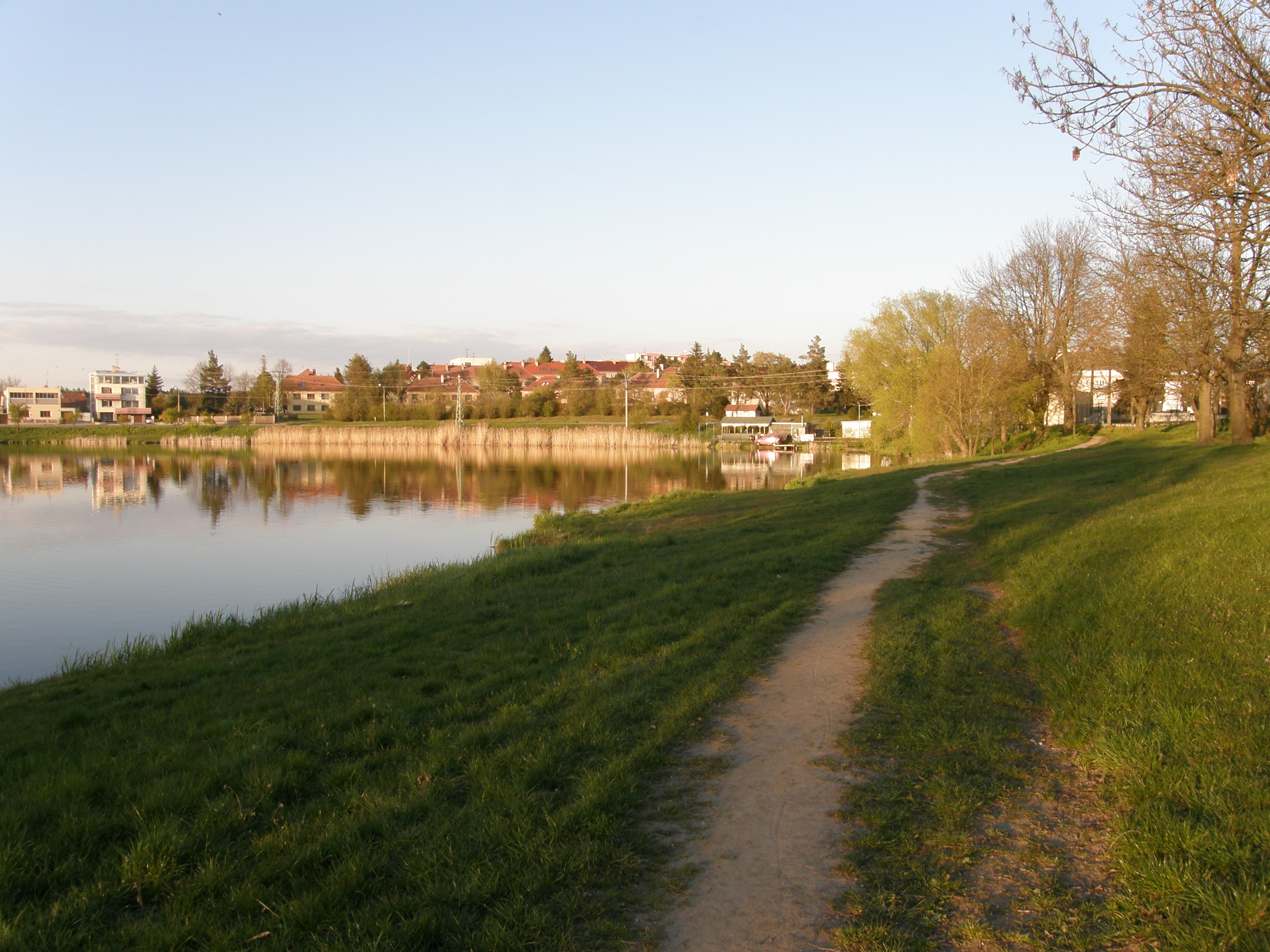 Rathan in Třebíč District, Czech Republic.